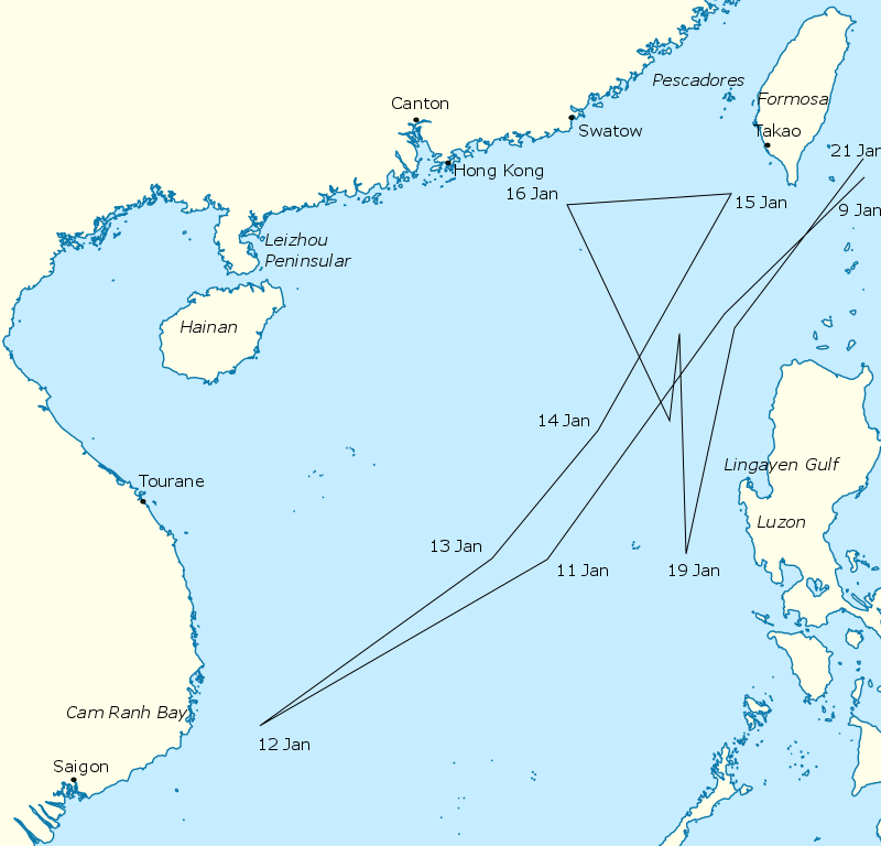 The approximate route taken by the US Third Fleet during the South China Sea Raid of January 1945, and locations around the sea affected by the raid. Sources: Faulkner, Marcus (2012). War at Sea: A Naval Atlas, 1939–1945 p. 257 and Morison, Samuel Eliot (2002) [1959]. The Liberation of the Philippines: Luzon, Mindanao, the Visayas, 1944–1945 p. 166